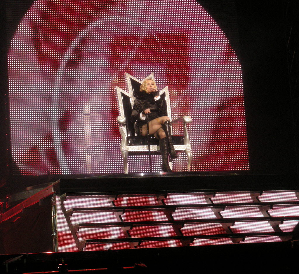 Madonna - Amsterdam ArenA - September 2, 2008